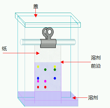 Paper chromatography